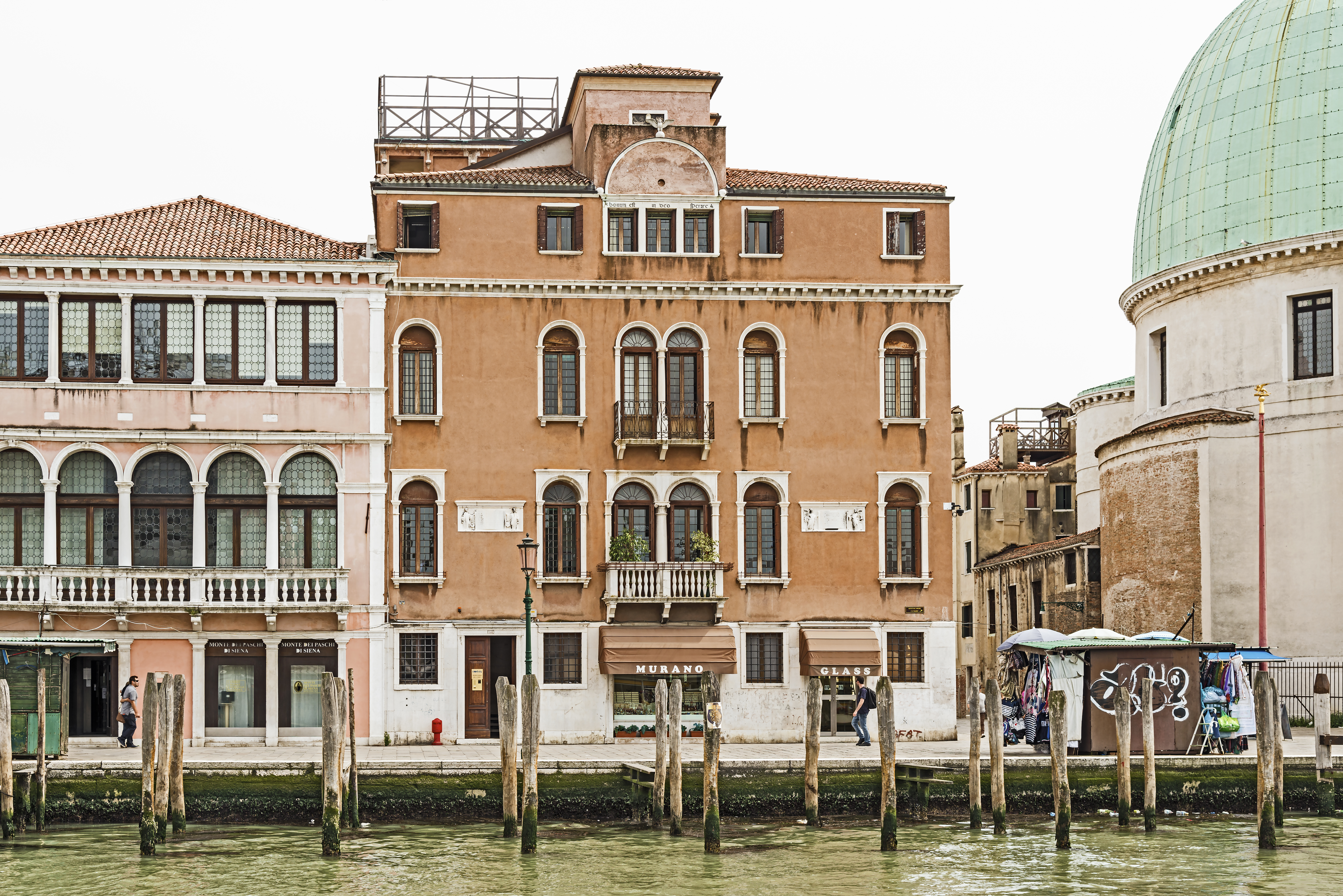 Palace Adoldo. Renaissance façade (XVI century) on the grand canal. On the right one can see the dome of the church of San Simeon Piccolo, on the left facade of Palace Foscari Contarini